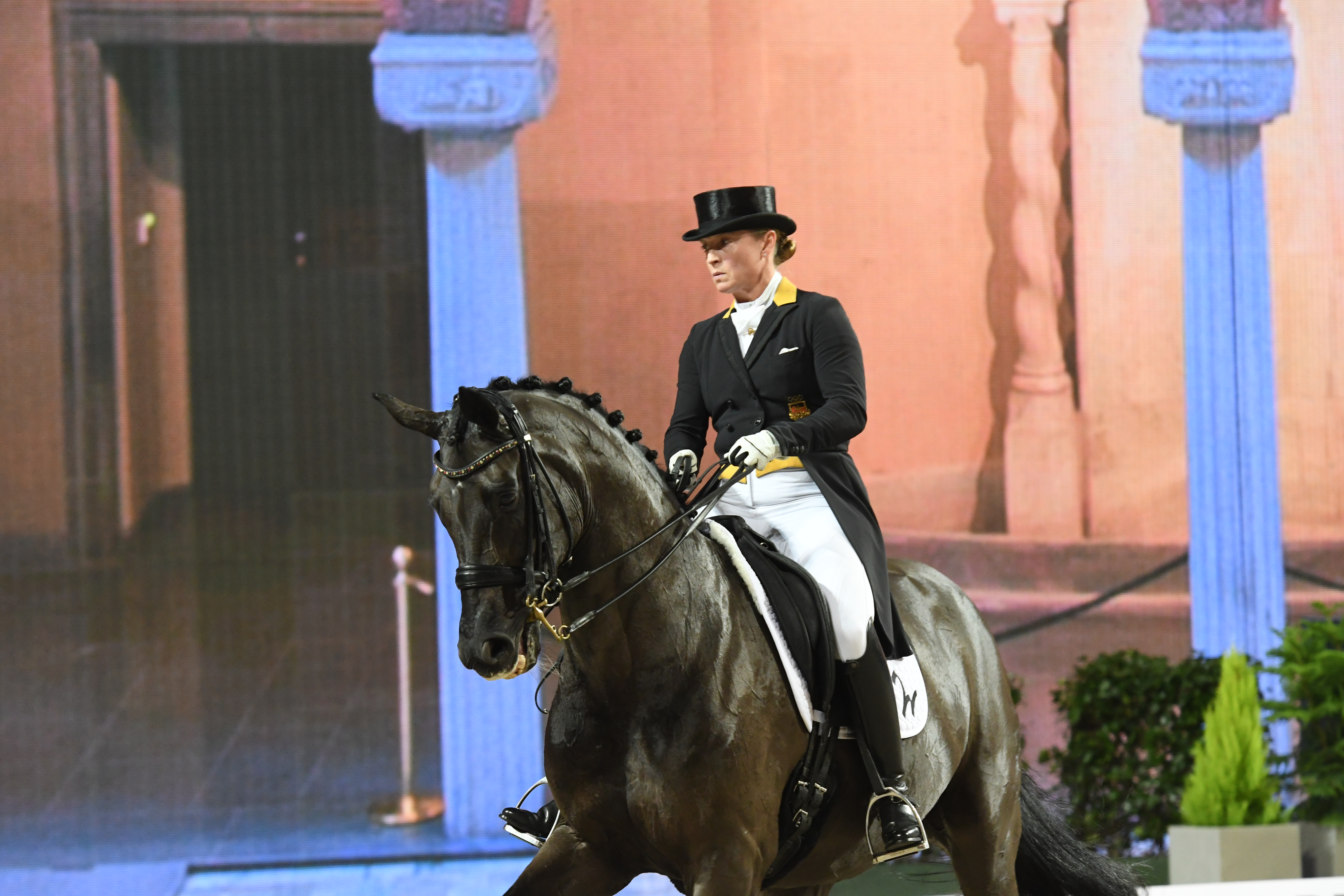 Isabell Werth Weihegold and Old during SAAB Top Ten Dressage Grand Prix during Sweden International Horse Show 2018.